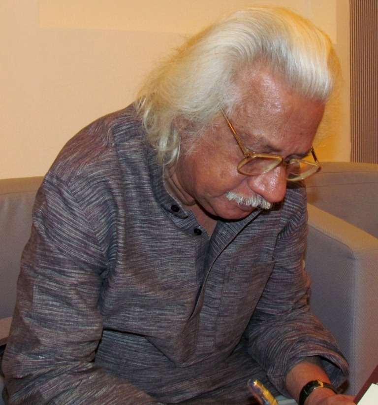 Malayalm cinema director Adoor Ghopalakrishnan while he attending Sharjah Book Fair 2013 programme